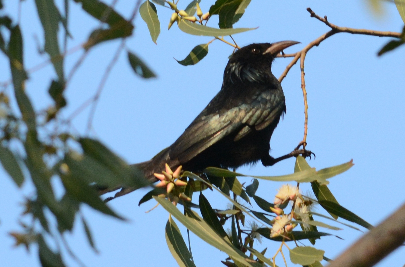 Hair-crested Drongo Dicrurus hottentotus by Dr. Raju Kasambe. Photo taken in Uttarakhand, India.